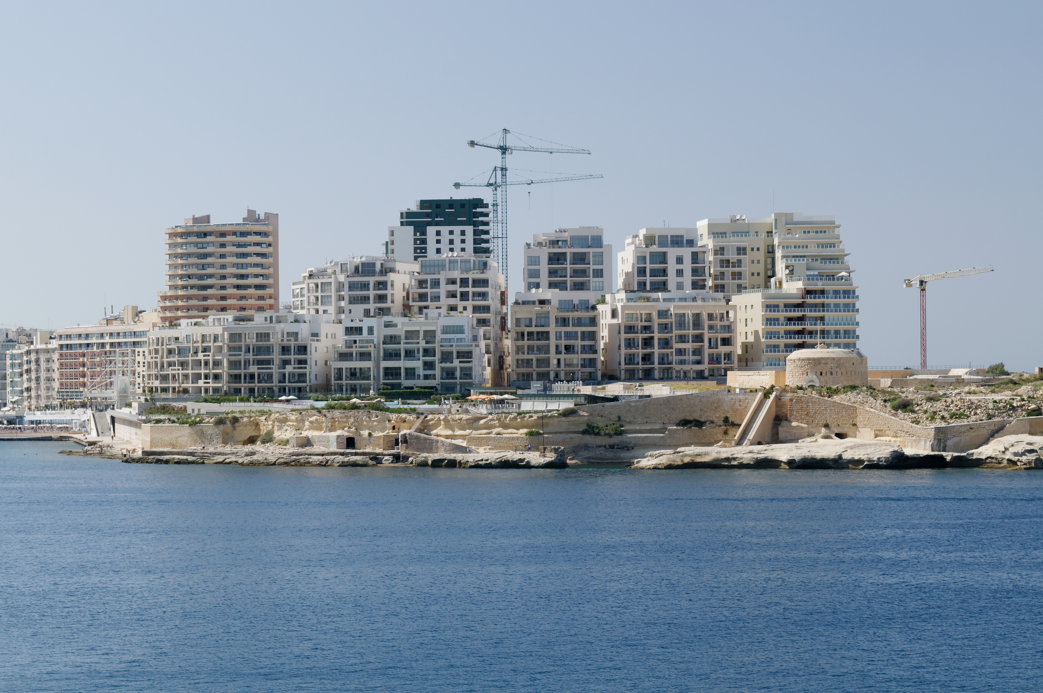 Sliema viewed from Triq Marsamxett in Valletta, Malta.